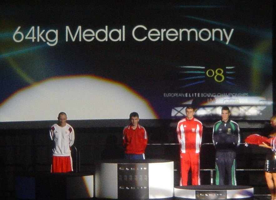 Eduard Hambardzumyan, Gyula Kate, John Joe Joyce and Marcin Legowski